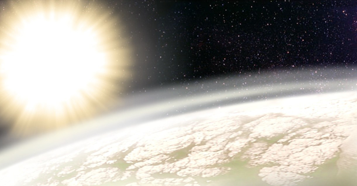 Image of the extrasolar planet HD209458b, also named Osiris. Is a gas giant orbiting very close to its host star. This type of planets are called "hot jupiters".